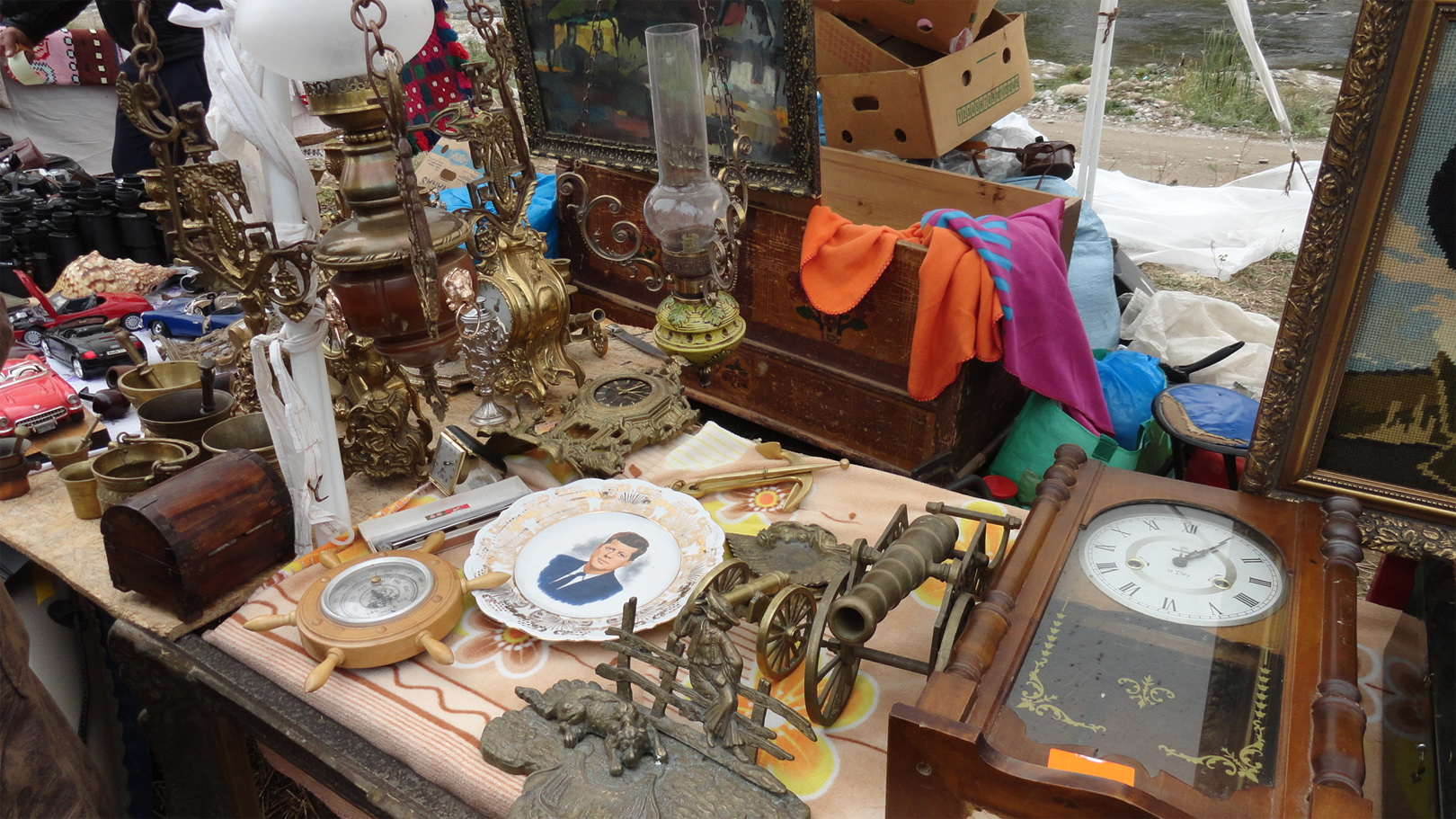 The annual fair in Negreni, Cluj, Romania